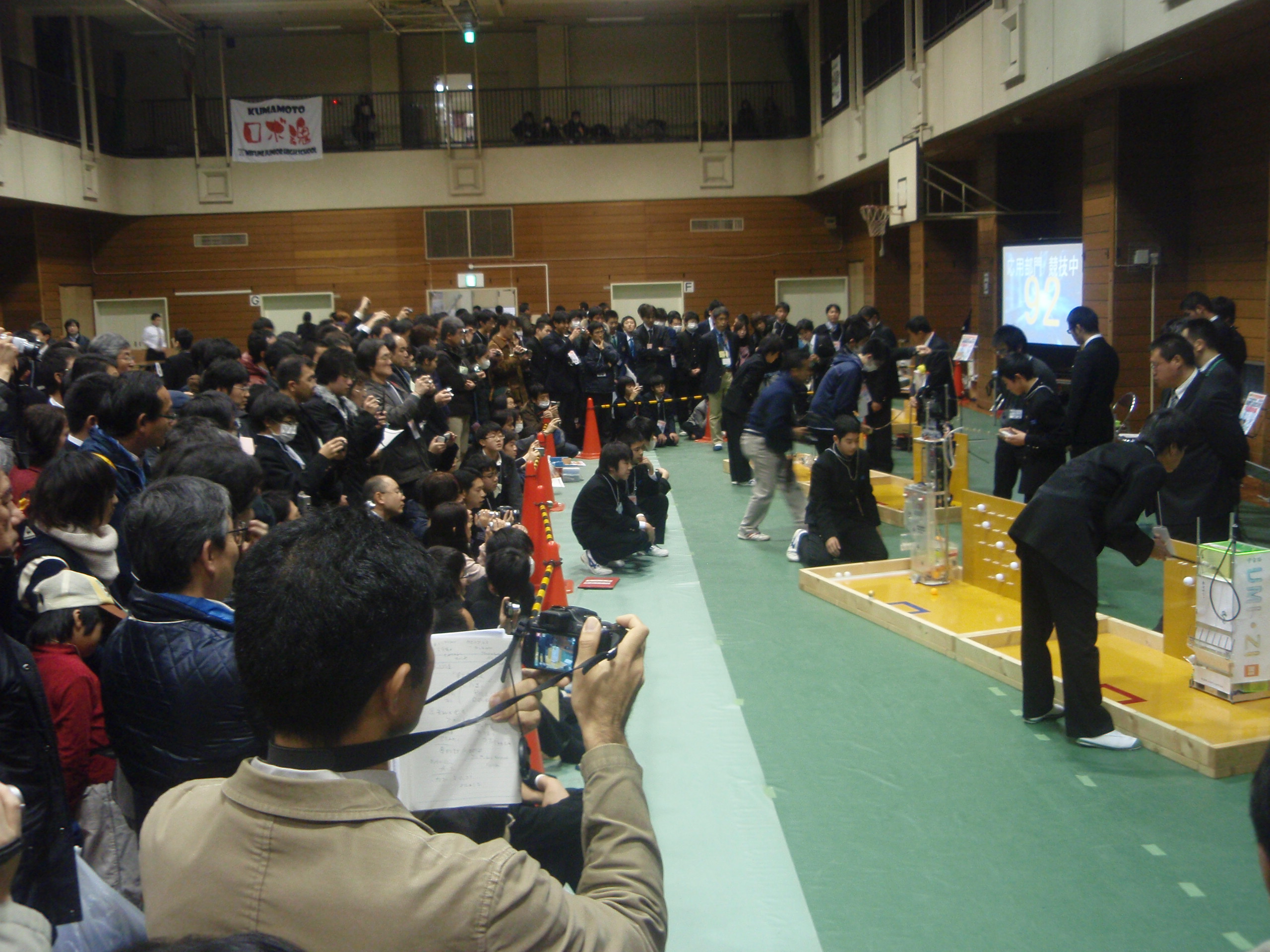 Japanese Junior High School Robot Contest 2012-01-21